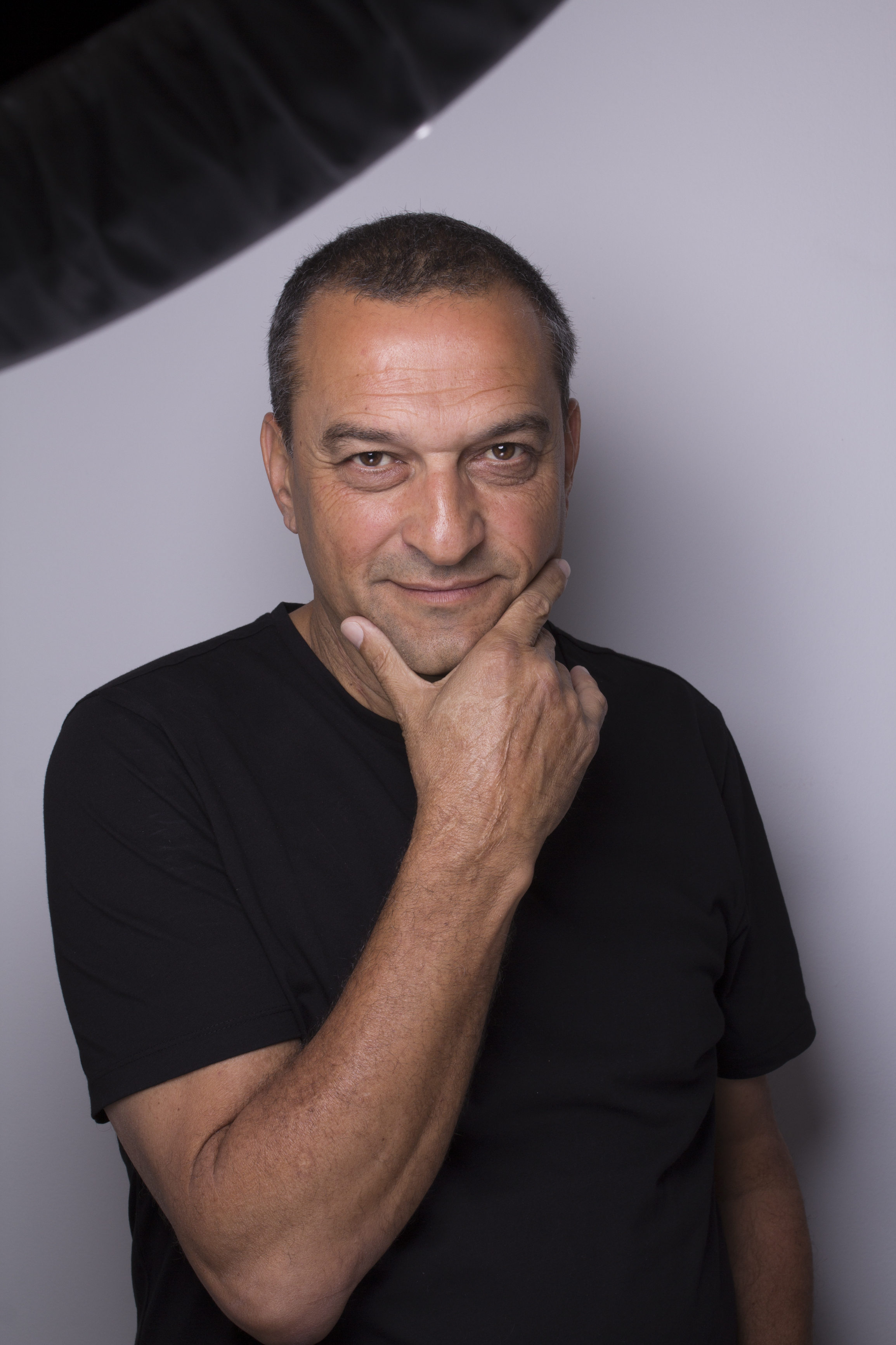 Rami Yehoshua, Chairman and owner of Yehoshua\TBWA Israeli ad agency, based in Tel Aviv.